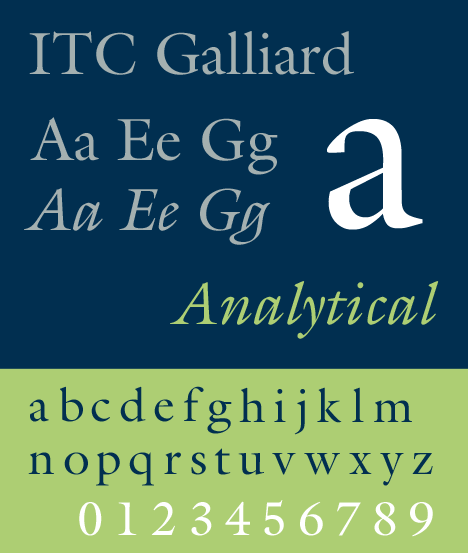 Typeface specimen of ITC Galliard